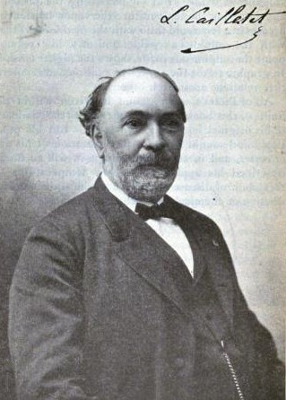 French physicist and inventor Louis-Paul Cailletet (1832-1915).